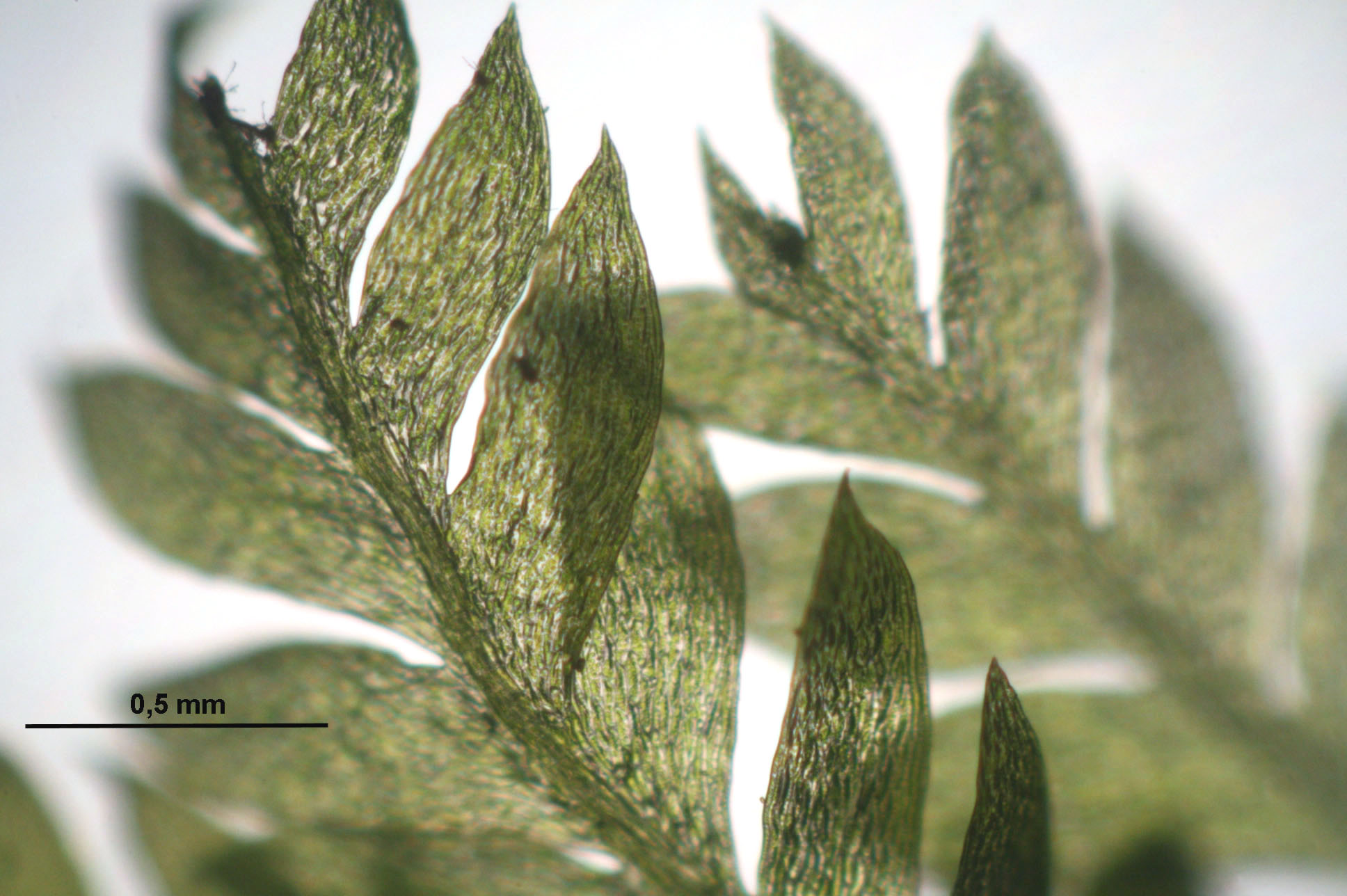 Schistostega pennata